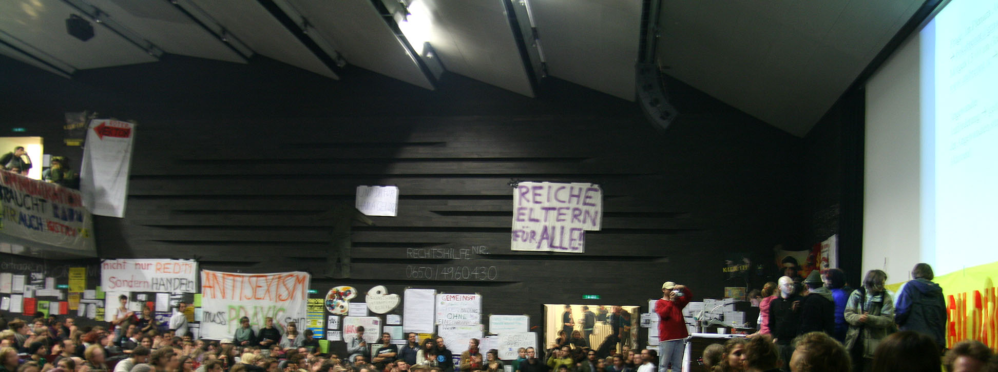 The slogan 'Reiche Eltern für Alle!' ('Rich parents for all!'), the Austrian slogan of the year 2009, on the wall of the Auditorium Maximum of the University of Vienna, that was occupied by protesting students in autumn 2009.